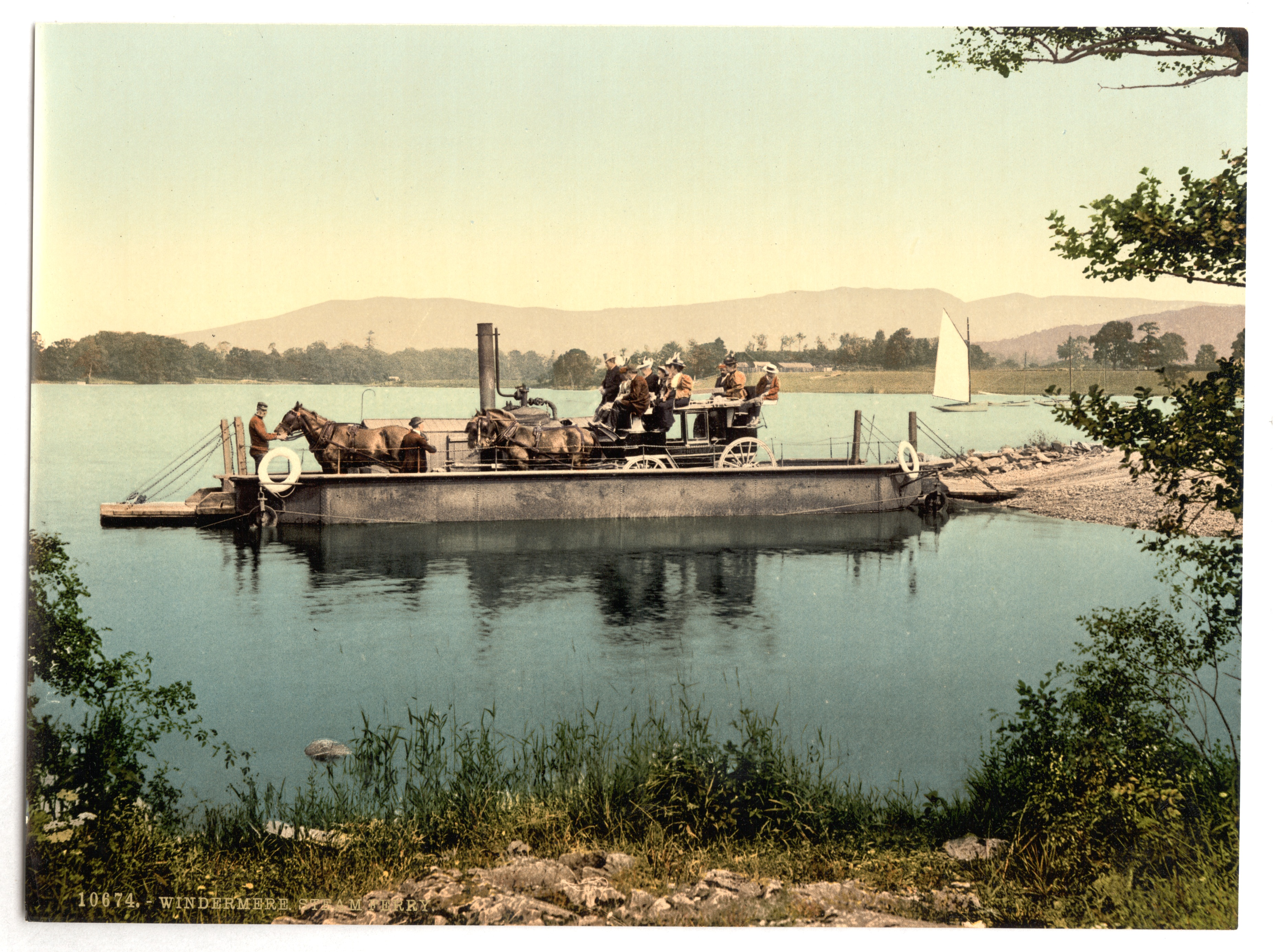 Forms part of: Views of the British Isles, in the Photochrom print collection.; More information about the Photochrom Print Collection is available at Title from the Detroit Publishing Co., Catalogue J-foreign section, Detroit, Mich. : Detroit Publishing Company, 1905.; Print no. "10674".